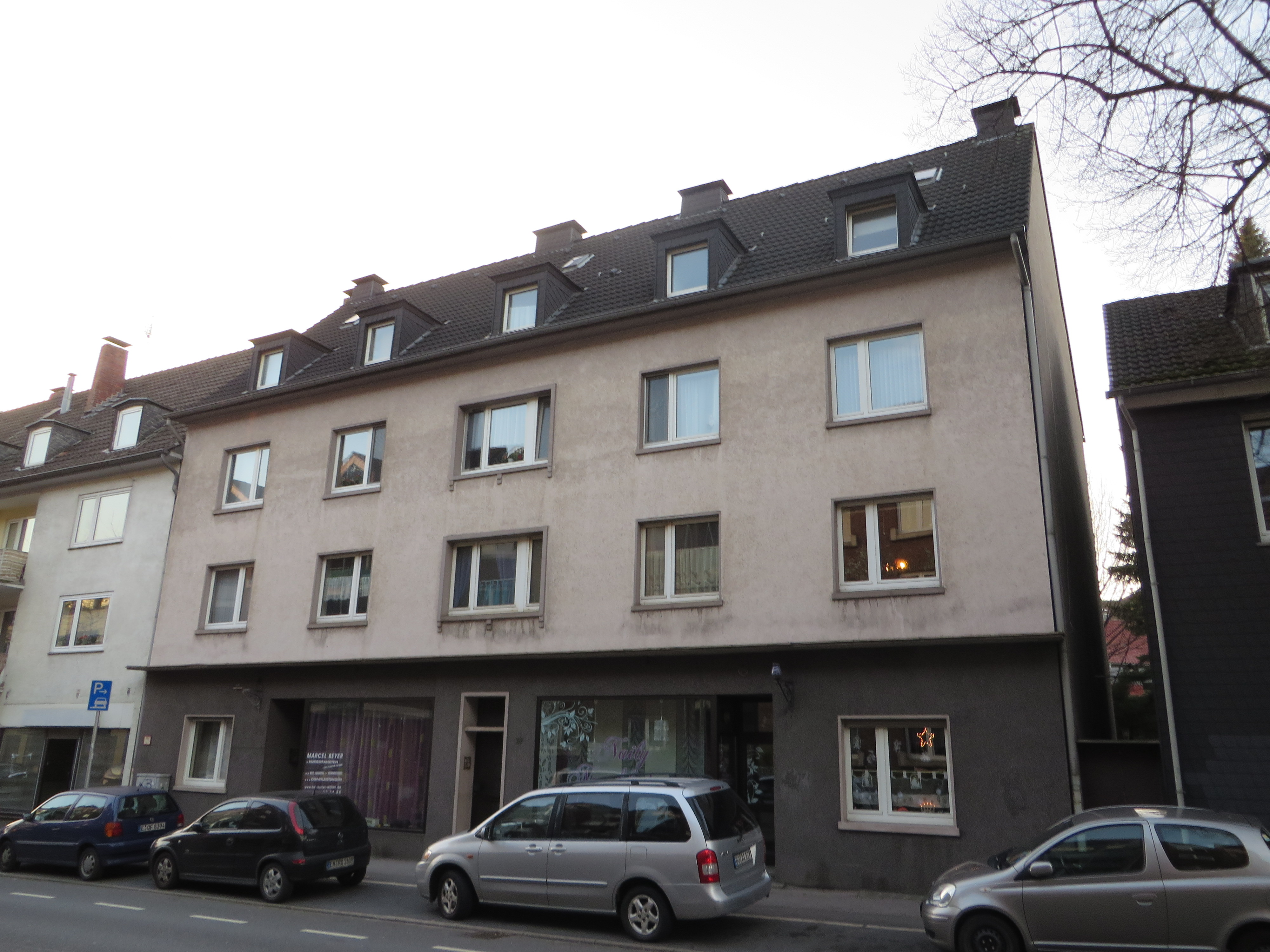 House Johannisstraße 37 in Witten, GermanyEsperanto: Domo Johannisstraße 37 en Witten, Germanio